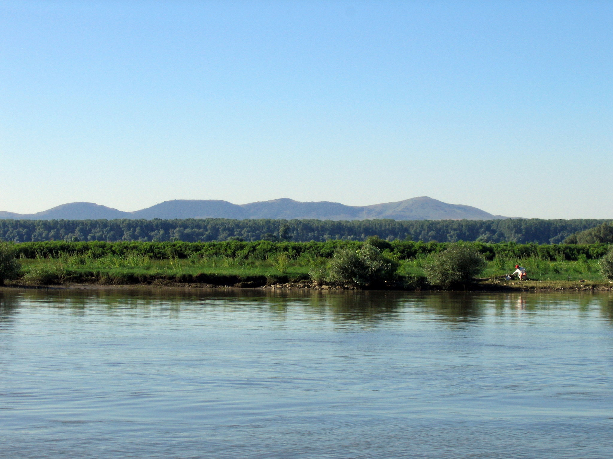 Bank of Denube in its Delta.